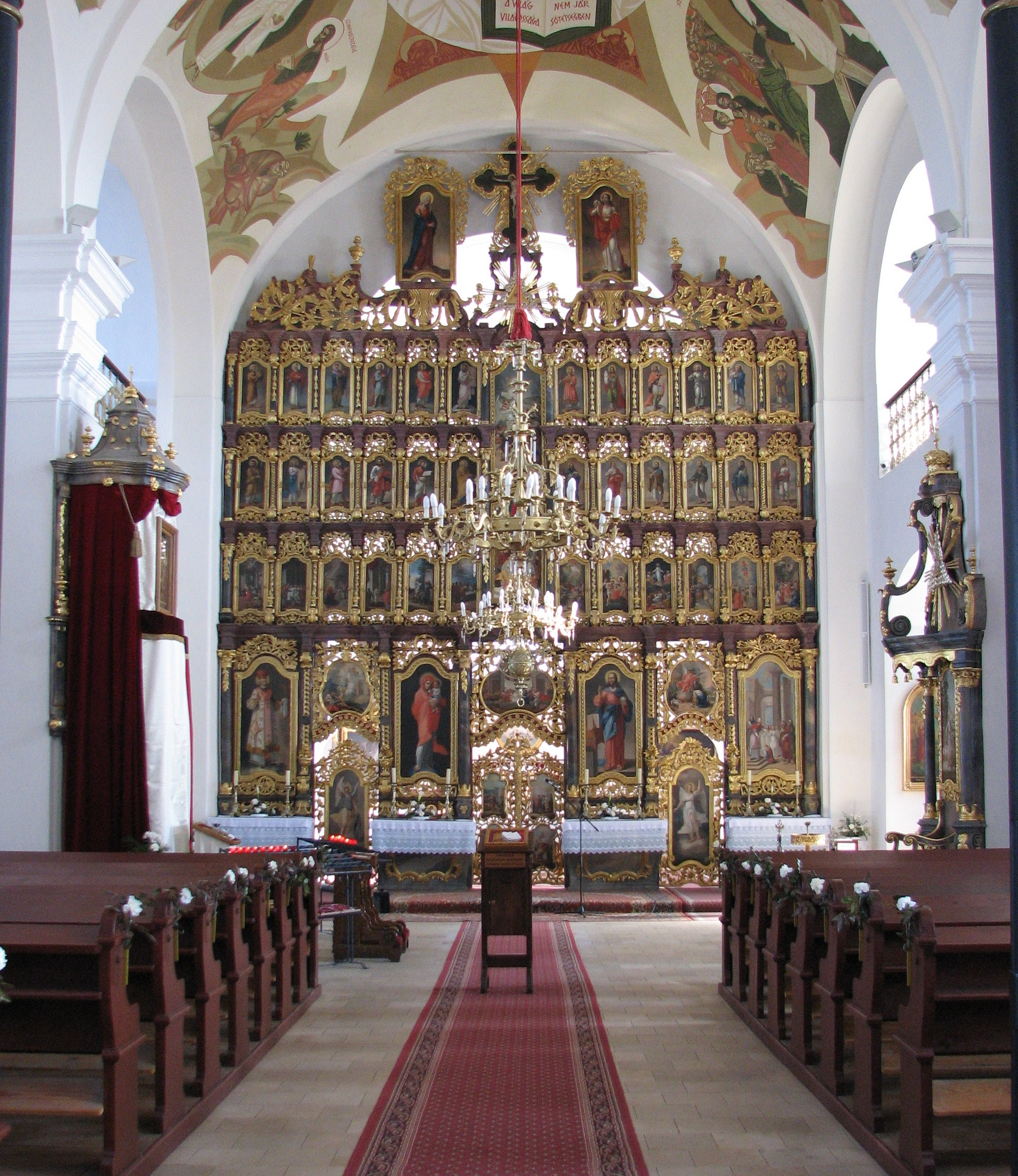 The interior of the Greek Catholic Cathedral of Hajdúdorog, Hungary.